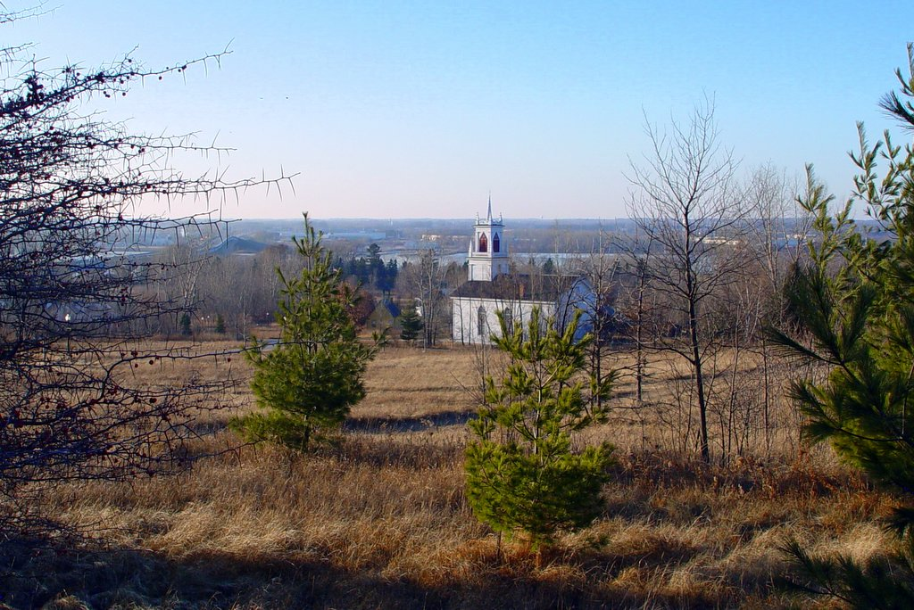 Heritage Hill State Park, Green Bay, WI.